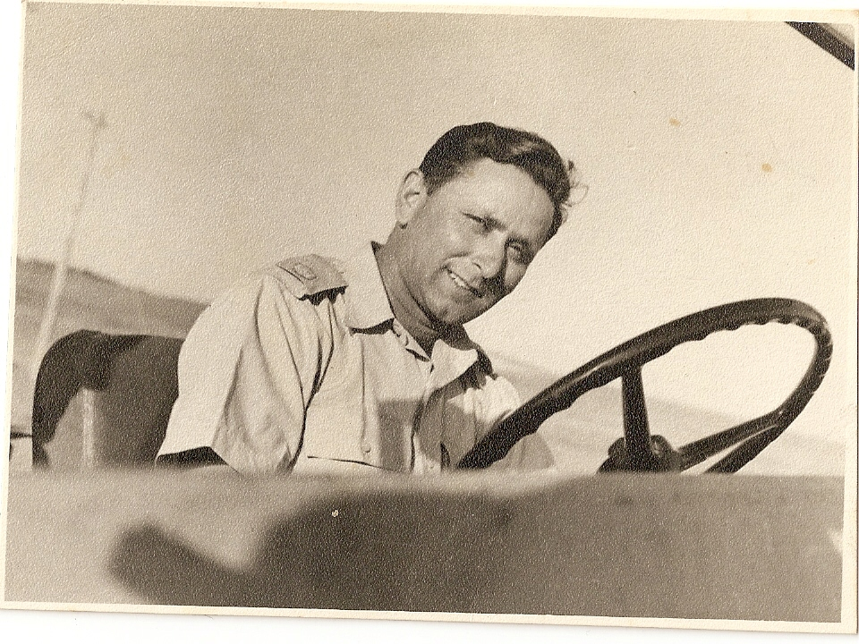 Goel Levitzky, Israel Defense Forces